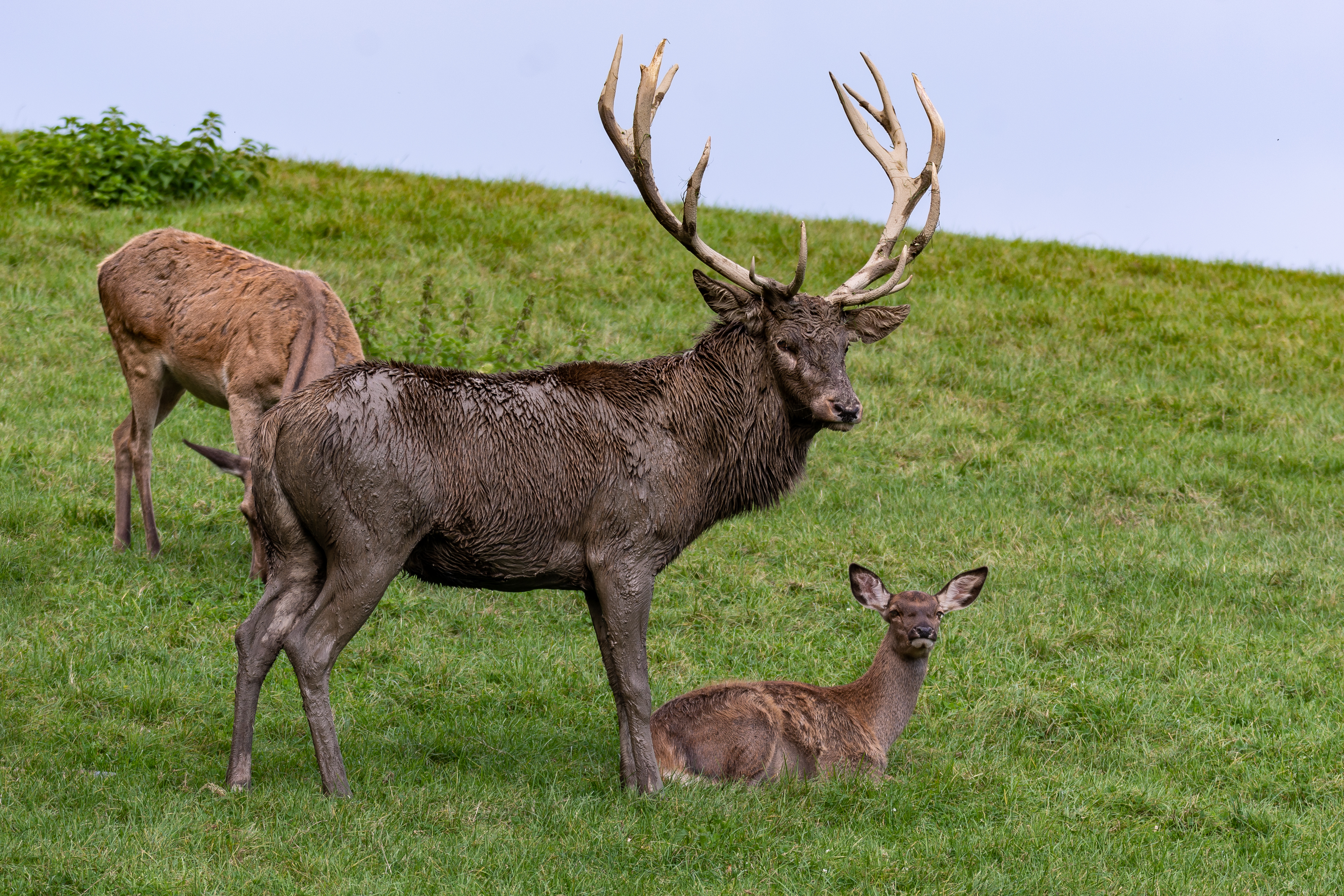 Deer (Cervus elaphus) in the wildlife park of Altenfelden (Upper Austria)